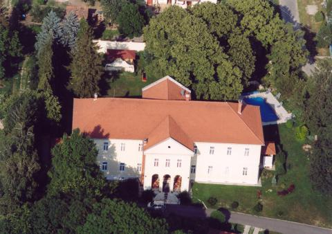 Misefa, Hungary, aerialphotography (Fábiánics-Bosnyák Mansion)